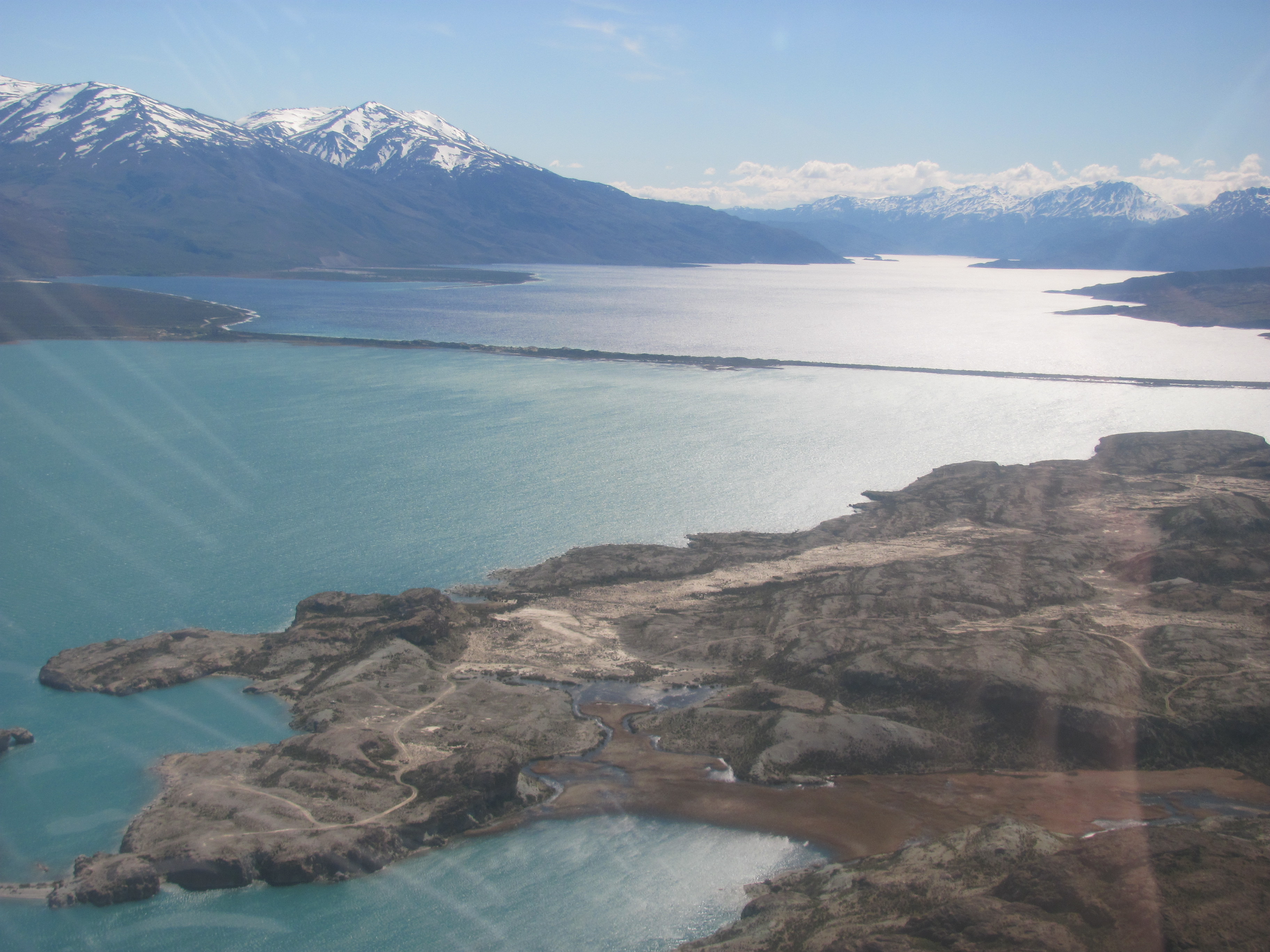 Aerial view of the union of the lakes.